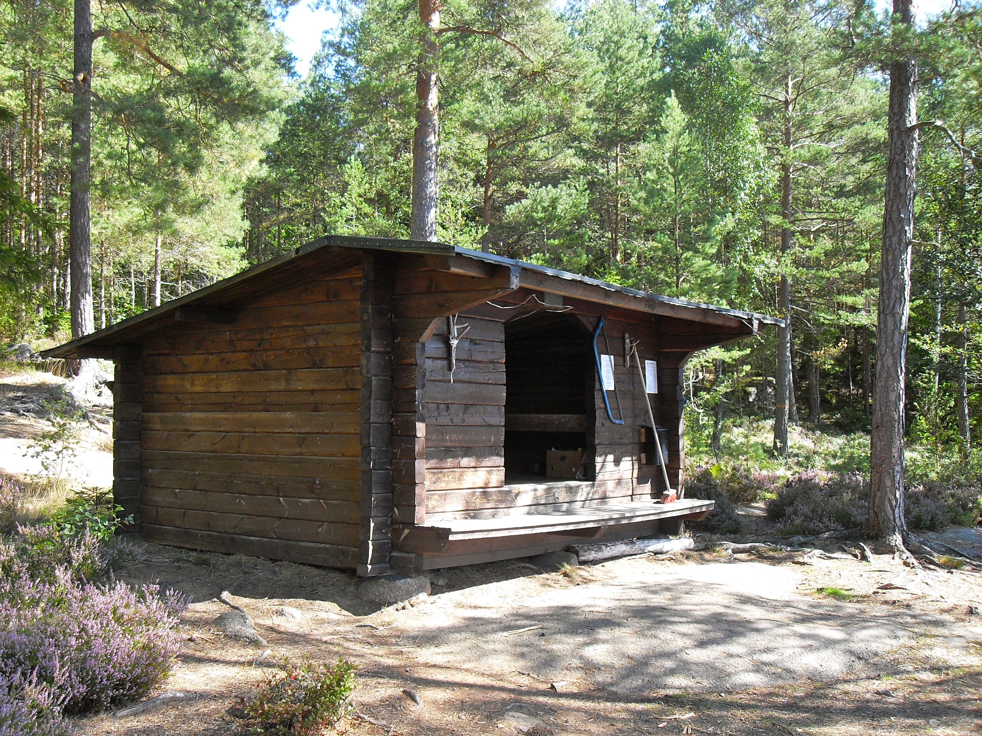 the shelter for overnight stays att hiking route tjustleden / sixgöl